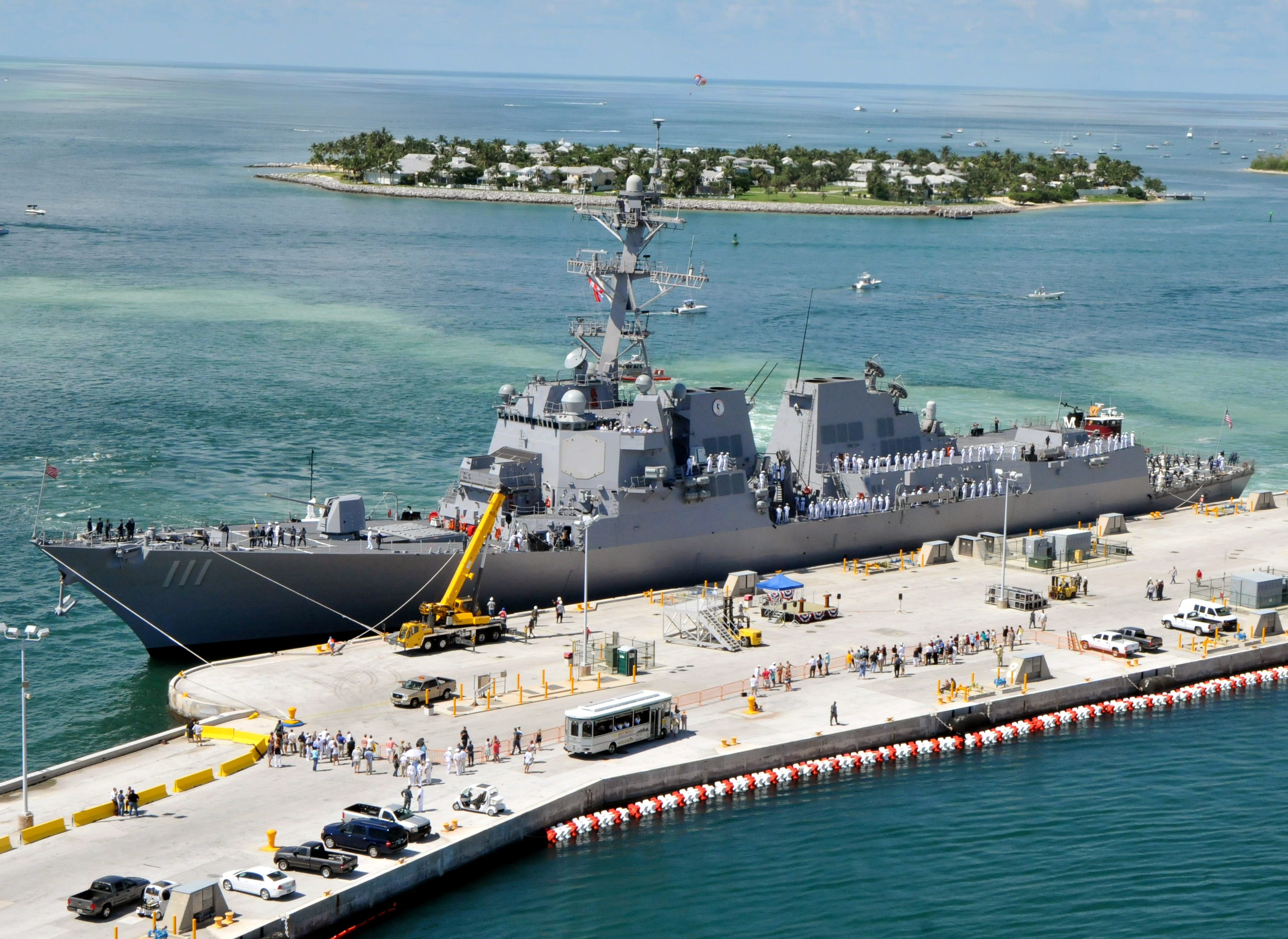 KEY WEST, Fla. The guided-missile destroyer Pre-Commissioning Unit (PCU) Spruance (DDG 111) arrives at Naval Air Station Key West in preparation for its formal commissioning ceremony Oct. 1. The ship is named in honor of Adm. Raymond Spruance, commander of Carrier Task Force 16 during the World War II Battle of Midway. Spruance is the second Navy ship to bear the name and the 61st ship in the Arleigh Burke class of Navy destroyers.